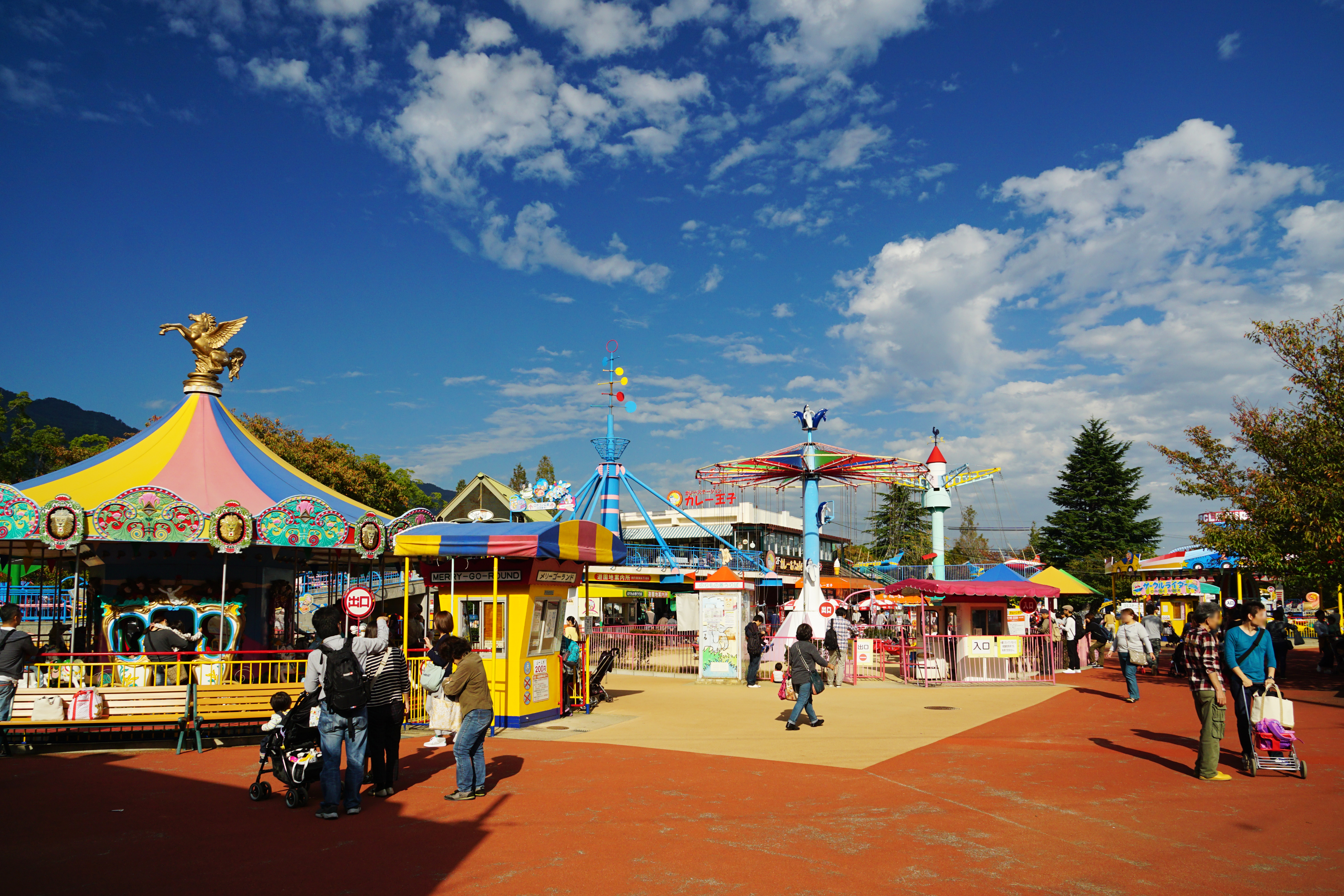 Kobe Oji Zoo in Kobe, Hyogo prefecture, Japan